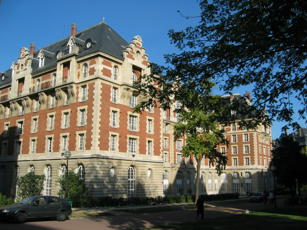 Author : Olivier Coudevylle